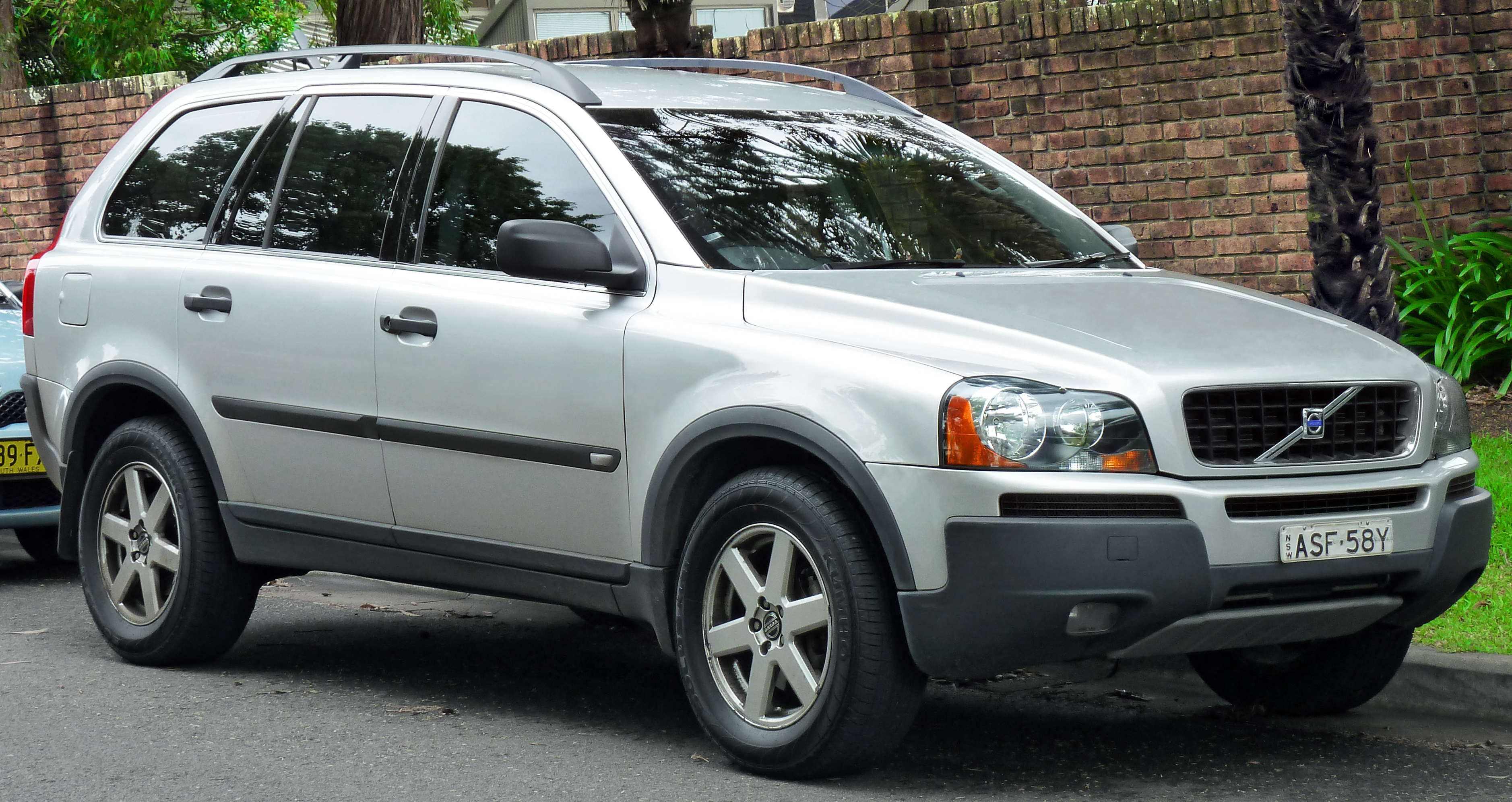 2003 Volvo XC90 (P28 MY04) 2.5 T wagon. Photographed in Gordon, New South Wales, Australia.